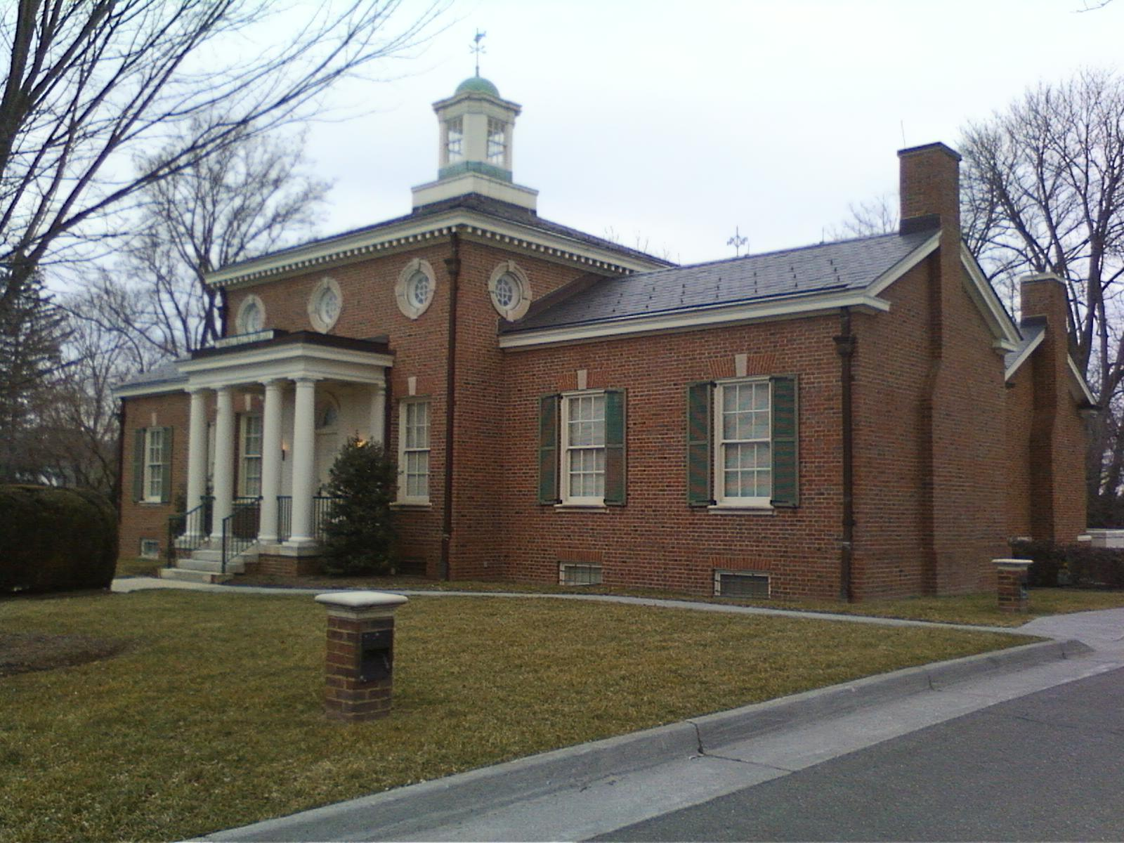 Side view picture of the Thomas Balch Library located in Leesburg, Virginia.